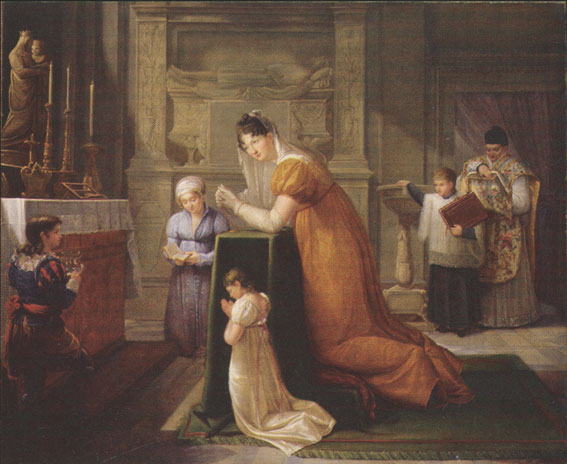 Alexandrine-Charlotte de Bleschamps-Bonaparte in the Church at Canino